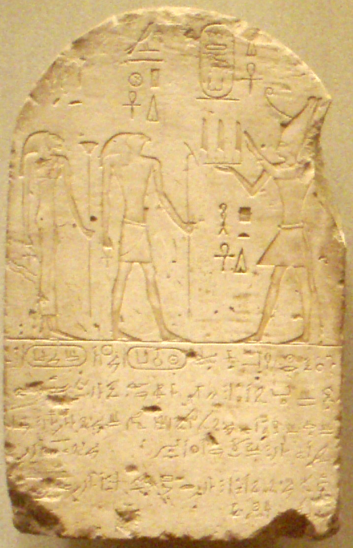 Shabaqo donation stela, from the 25th dynasty, circa 713-698 B.C. The stela depicts the pharaoh offering the hieroglyph for "field" to the gods Horus of Pe and Wadjet. (the hieroglyphs for Peh, (p-h(wick hieroglyph)), say: "Peh, Given Life". (Peh, di Ankh)